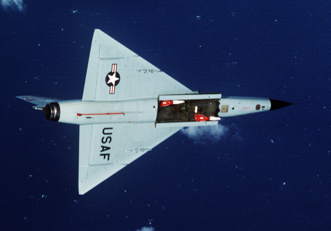 A U.S. Air Force Convair F-106A-105-CO Delta Dart aircraft (s/n 59-0027) from the 119th Fighter Interceptor Squadron, 177th Fighter Interceptor Group, New Jersey Air National Guard, shortly before firing an AIM-4 Falcon missile during the air-to-air weapons meet "William Tell '84" in October 1984.